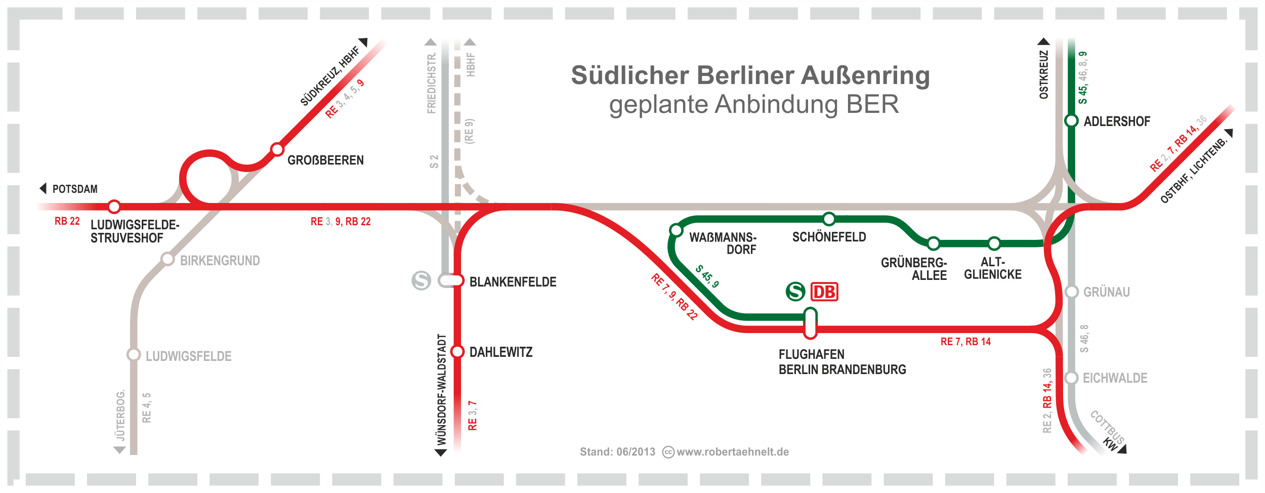 Rail transport in Berlin (South) - Connection Berlin Brandenburg Airport